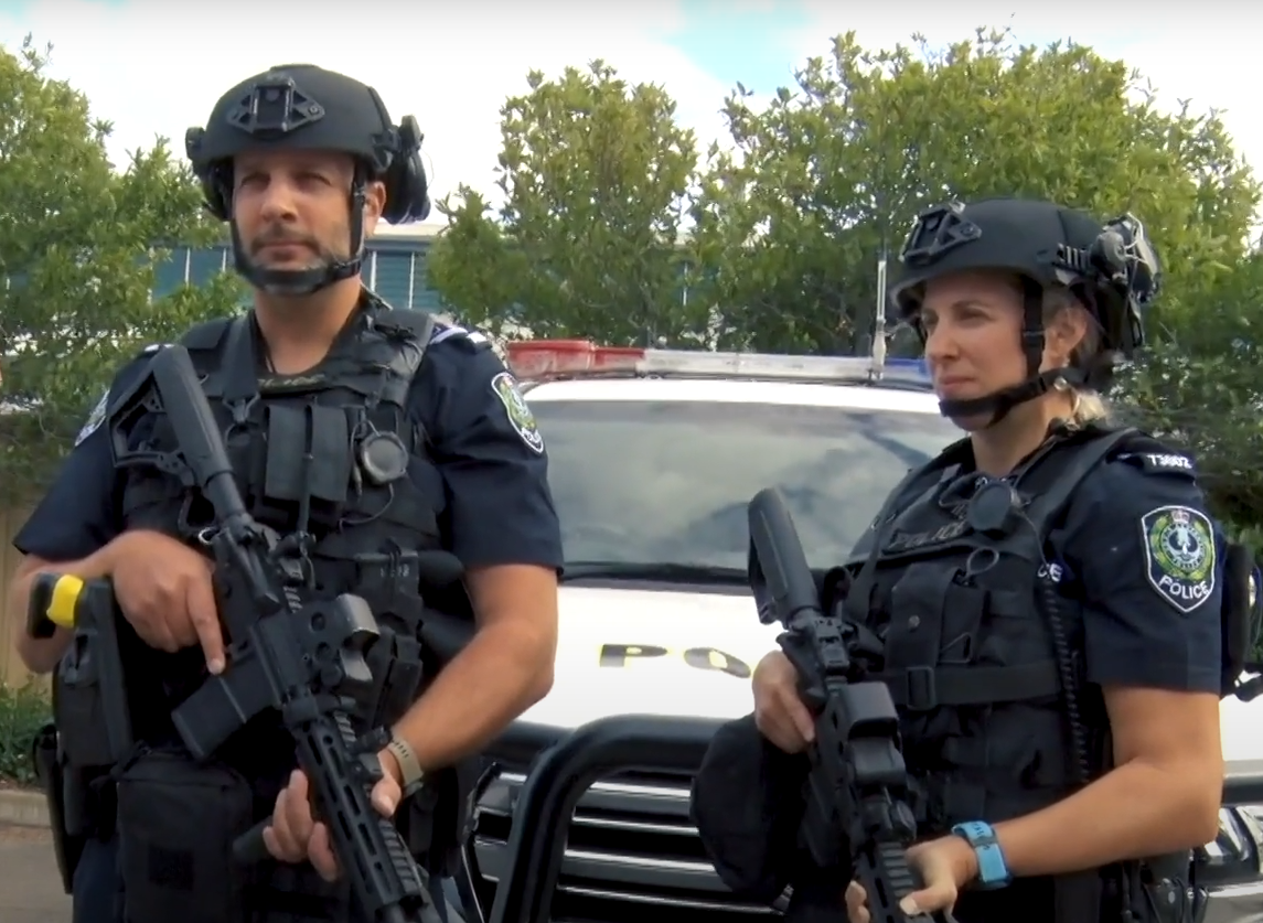 South Australia Police's Security Response Section (SRS), will provide a highly visible police presence to ensure public safety in vulnerable locations such as crowded places and major events. This section will provide prevention and response to terrorism related incidents, domestic events of a violent nature and to safely manage major events in South Australia.